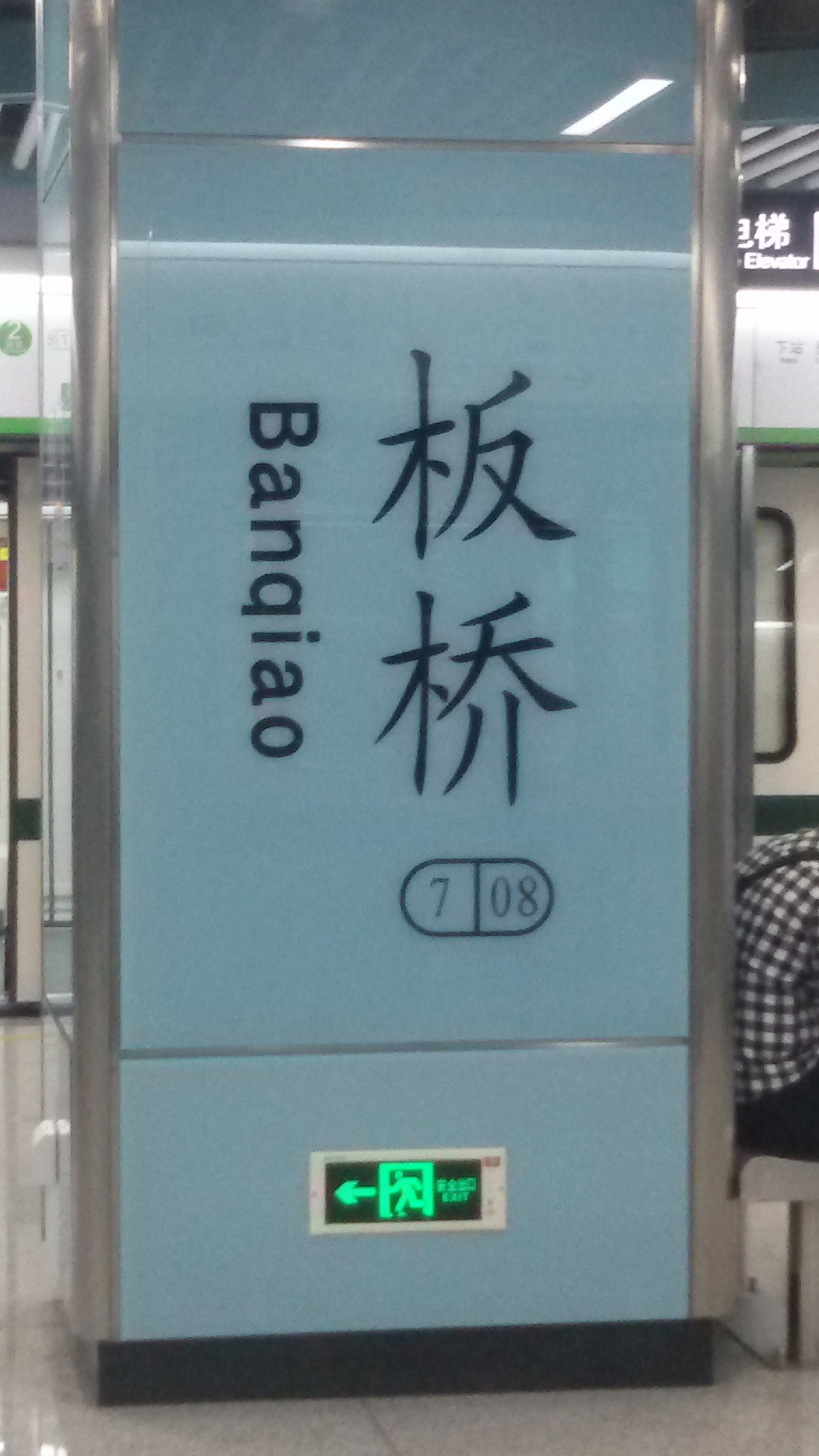 WORD on PILLAR for Banqiao Station in Guangzhou Metro